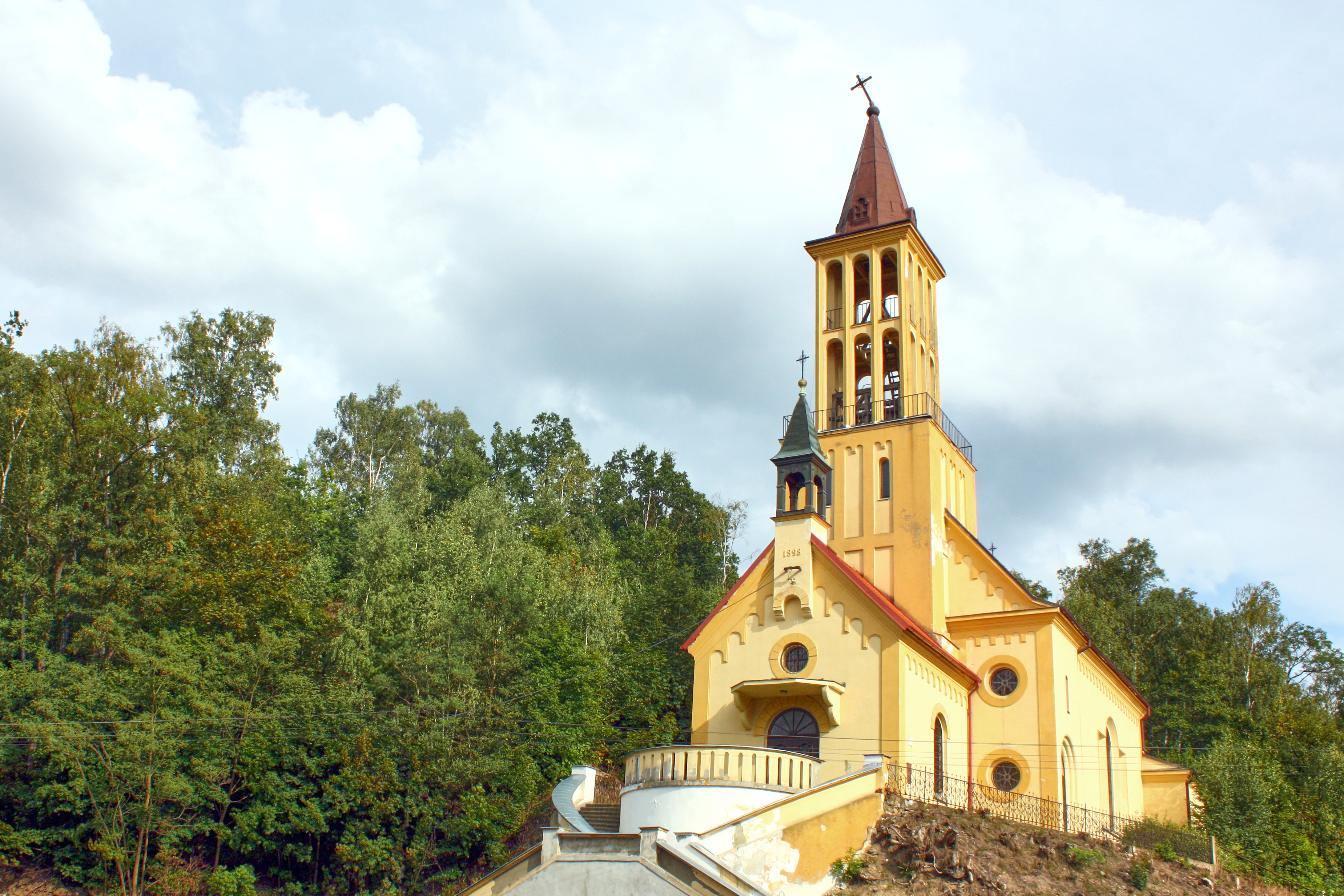 Church in Dalovice, Karlovy Vary District, Czech Republic; digitally modified